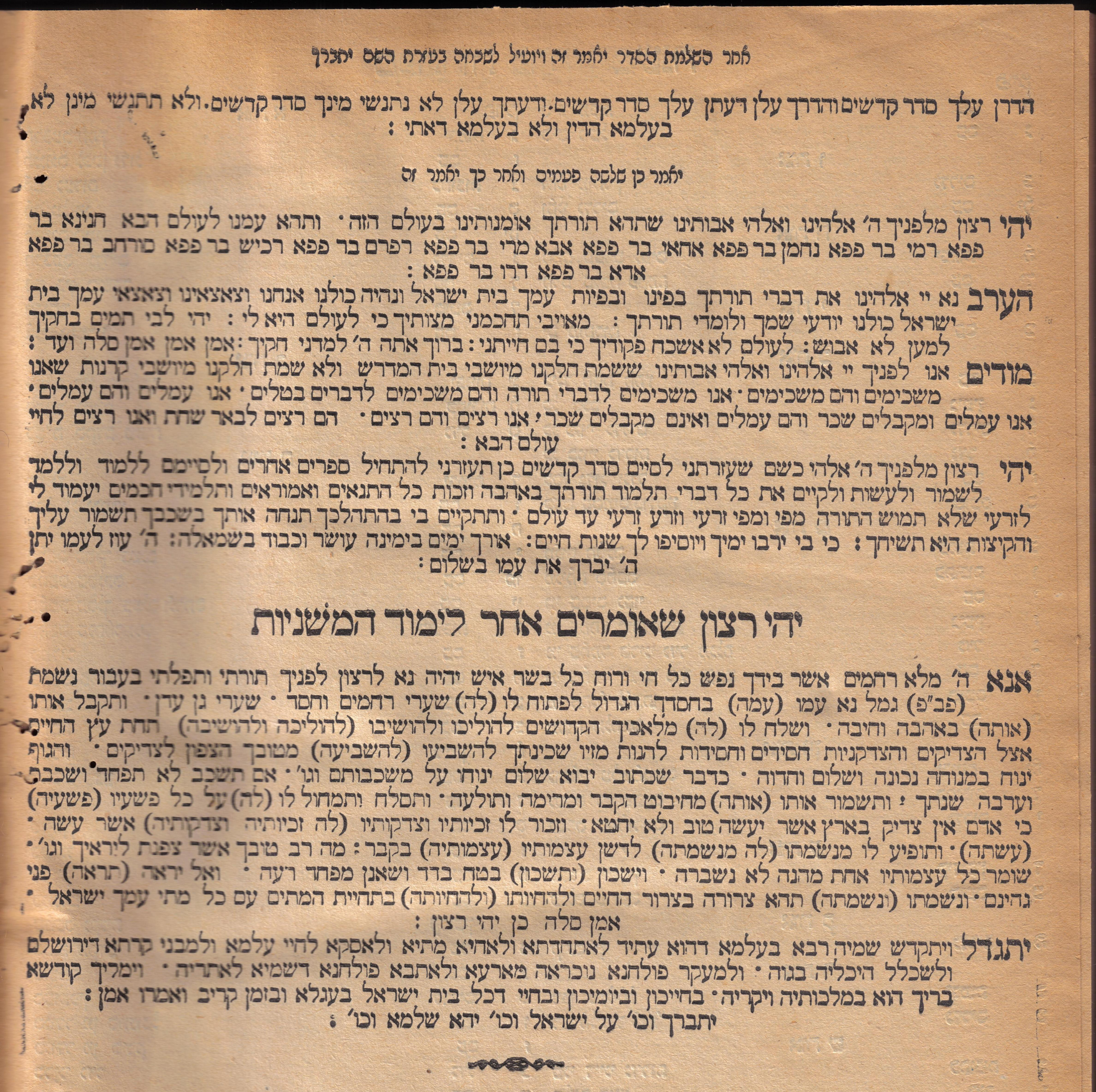 end page of Mishna